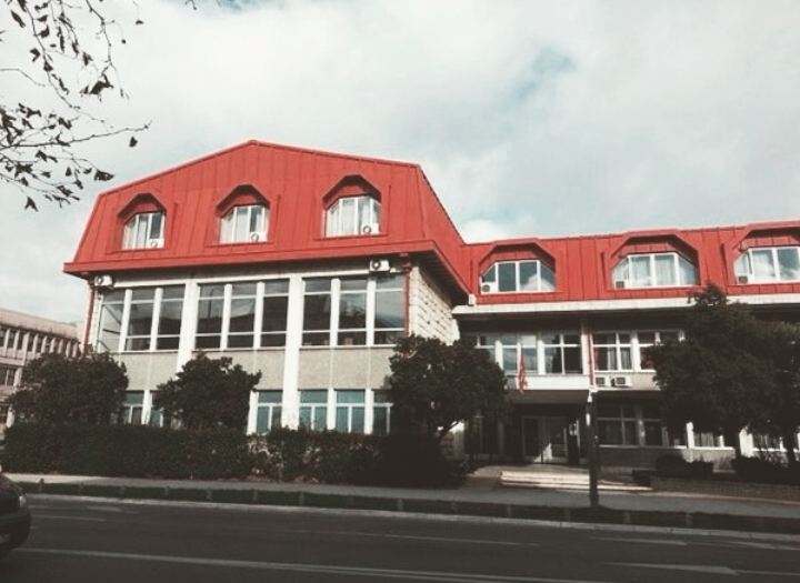 Podgorica Law School building.